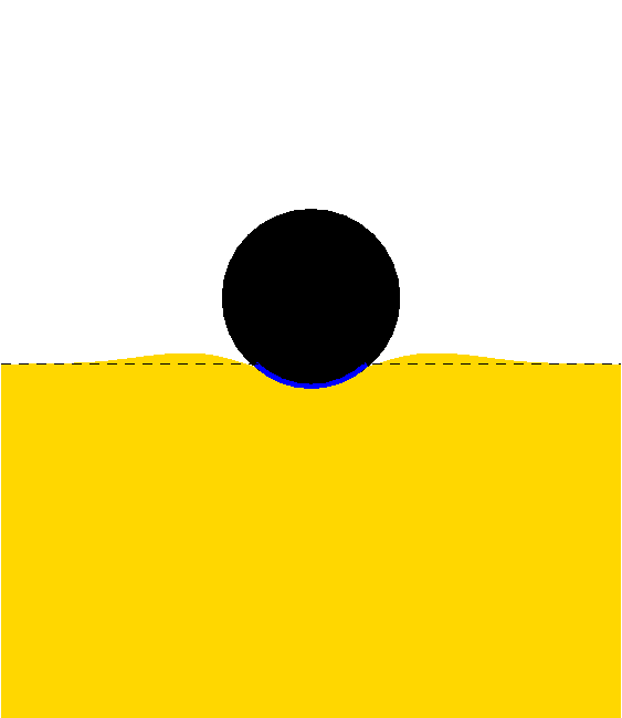 FKR test between a solid bead and a planar elastic material: zero force situation, with finite contact surface area